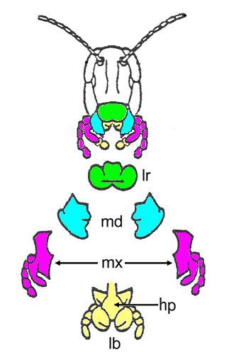 A standard representation of grasshopper mouthparts, the typical model for the chewing mouthparts of insects. The stylisation is a modification of Evolution_insect_mouthparts.png.